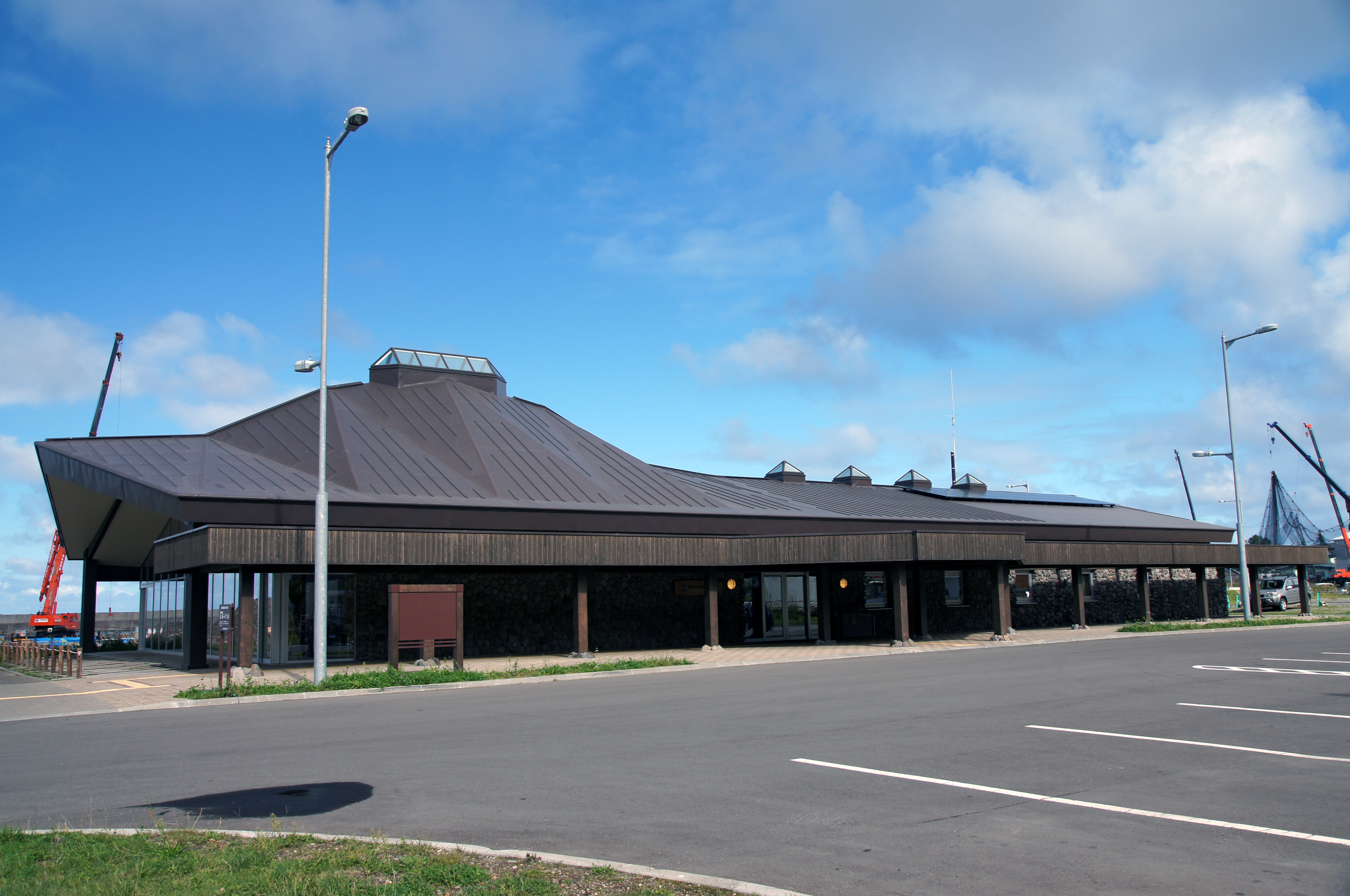 Shiretoko World Heritage Conservation Center in Shari, Hokkaido prefecture, Japan